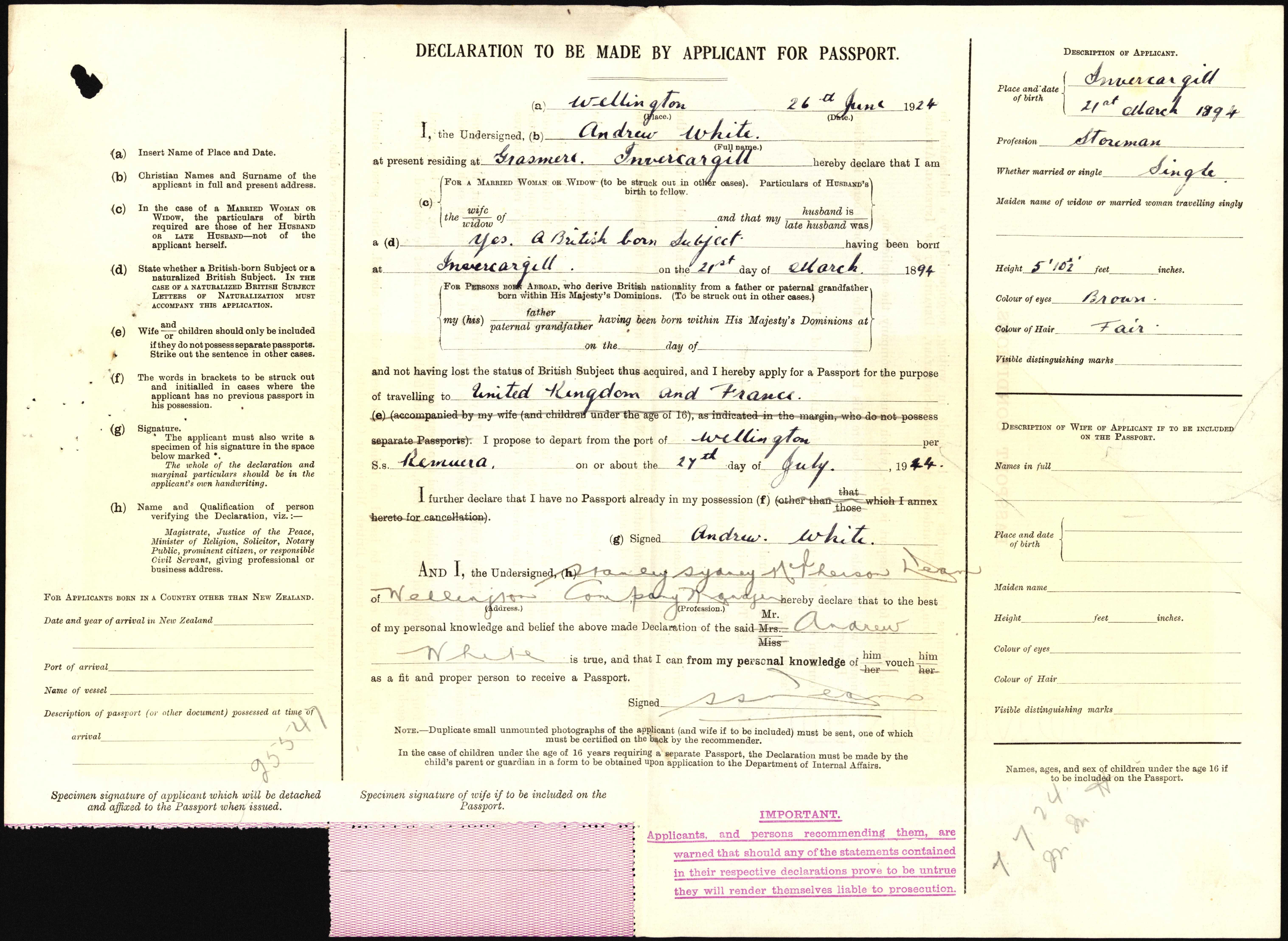 ACGO 8333 IA1 1349 / 15/11/17721 Andrew White passport application (1924)